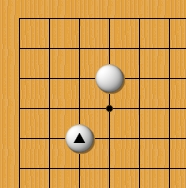 Kogeima (small knight jump) a nomenclature of Go.